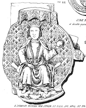 Louis, Prince of Taranto